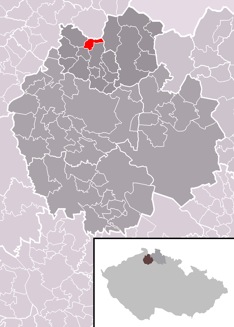 Location of Polevsko municipality within Česká Lípa District and administrative area of Nový Bor as a Municipality with Extended Competence.